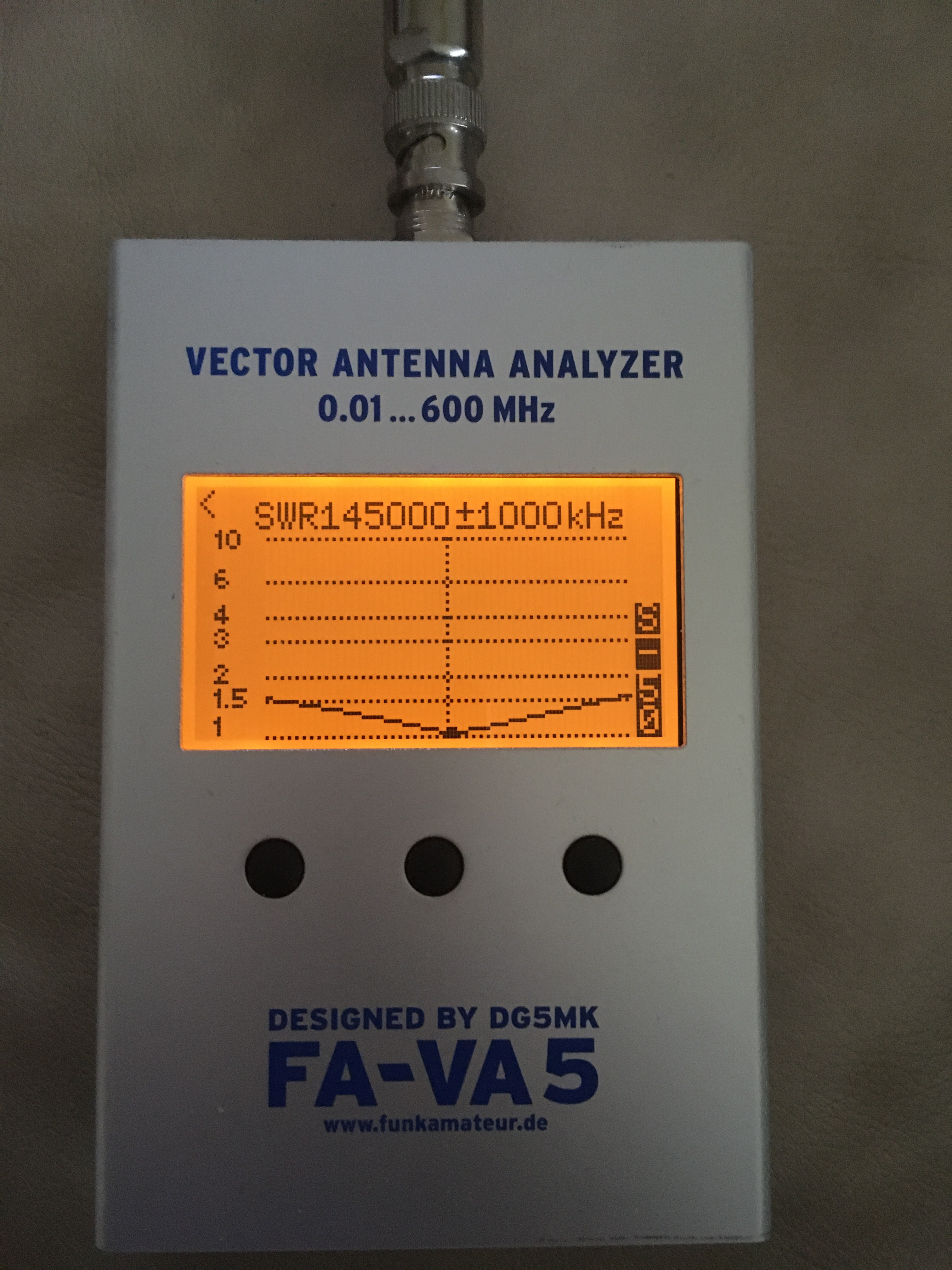 Vector antenna analyzer FA-VA5 0.01-600MHz. Showing SWR of 144-146MHz of the antenna Diamond MR-77BNC placed on a wide metal band.